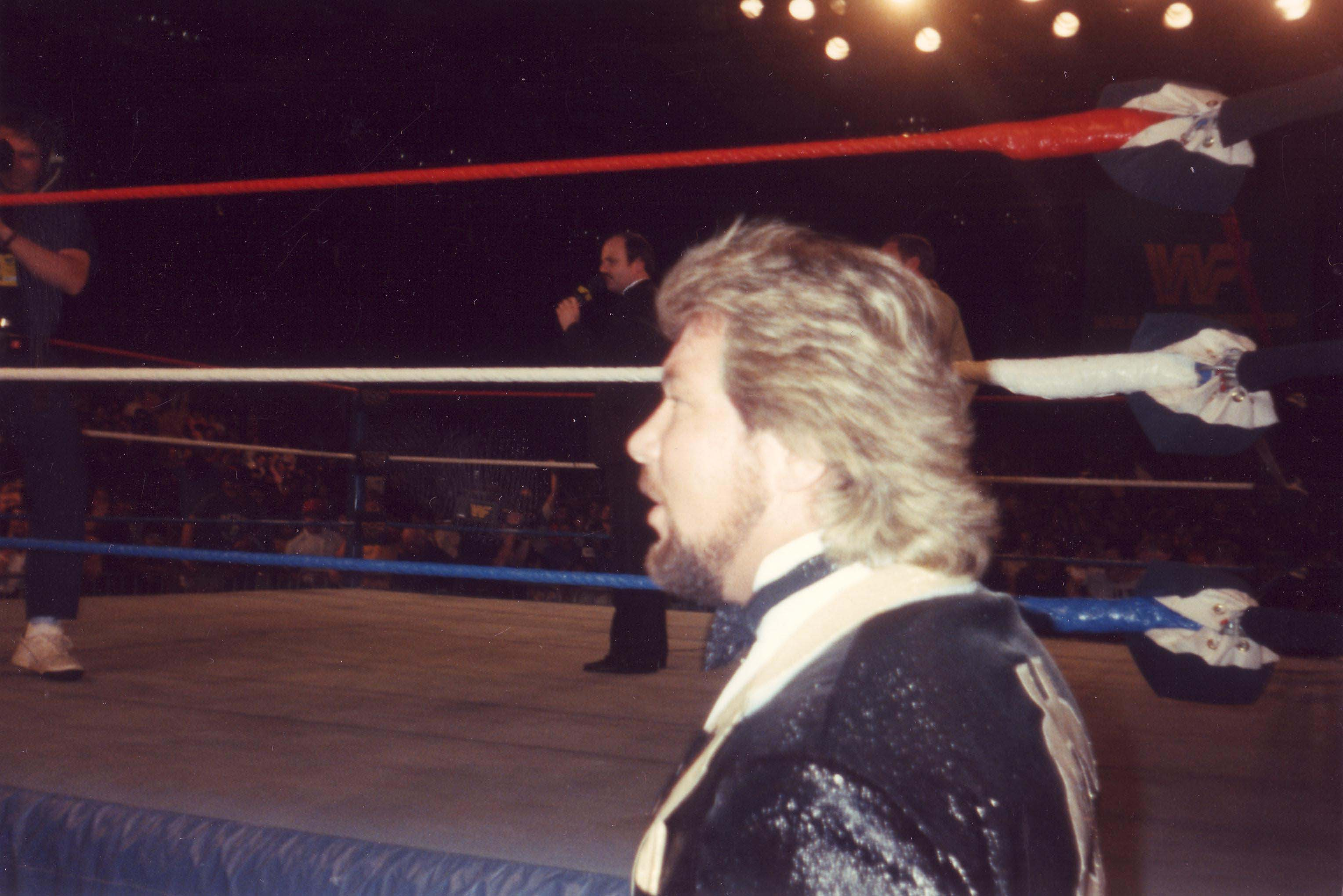 Ted Dibiase